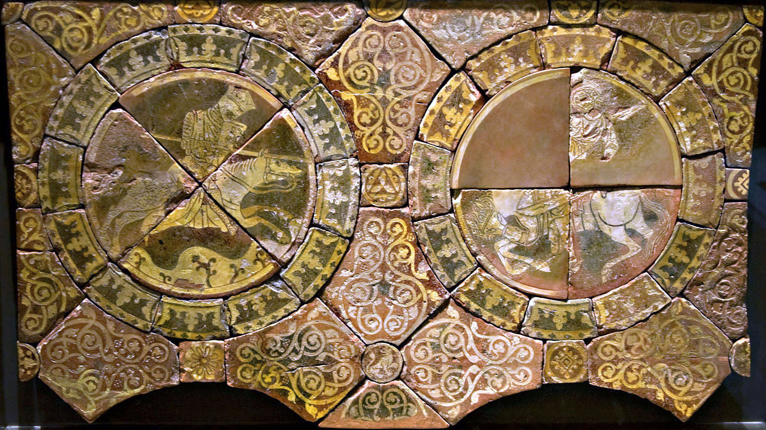 Tiles depicting Richard I of England and Saladin, now in the British Museum. Tag on exhibit states: "Tiles showing Richard and Saladin." and "About 1250-60, Chertsey, England, Earthenware, lead-glazed. PE 1885,1113.9051-60;9065-70 Given by Dr. H. M. Shurlock." See BM database entry for more details.